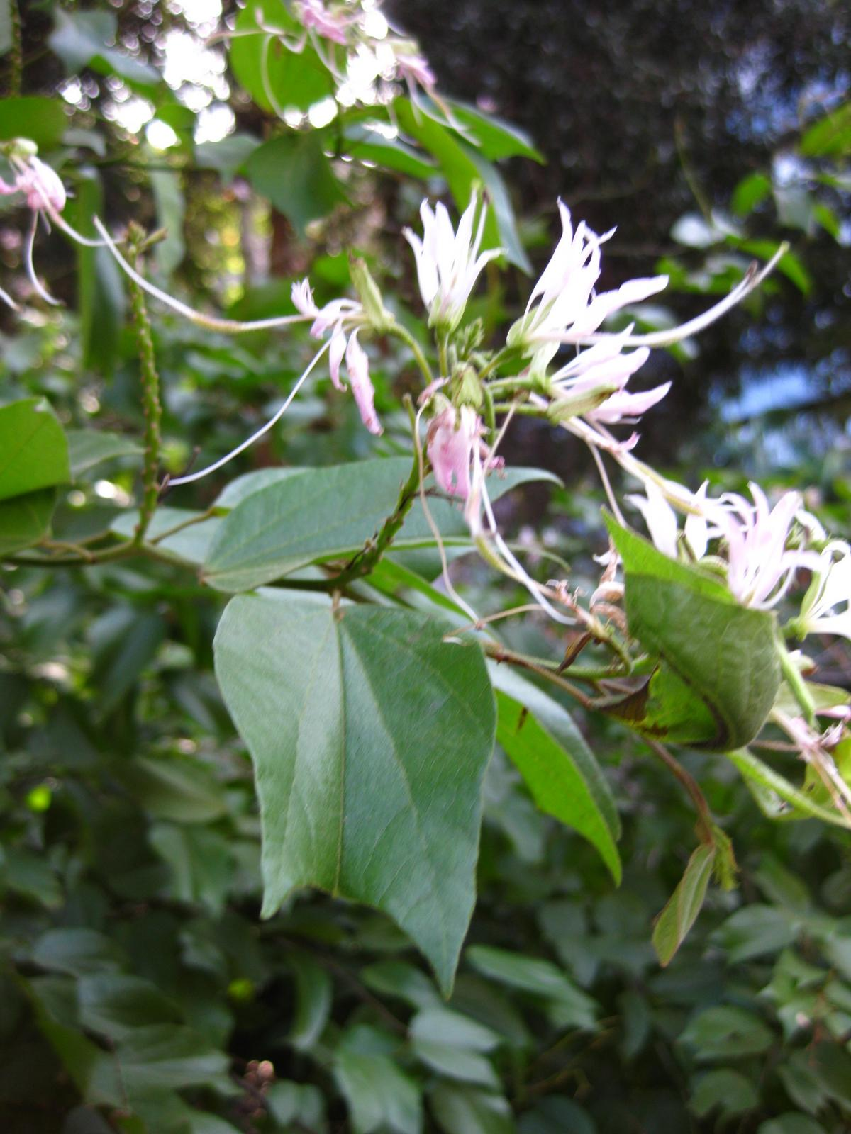 Bauhinia species. Photographed at Mildred E. Mathias Botanical Garden at UCLA, Westwood, (Los Angeles, California) - in November.